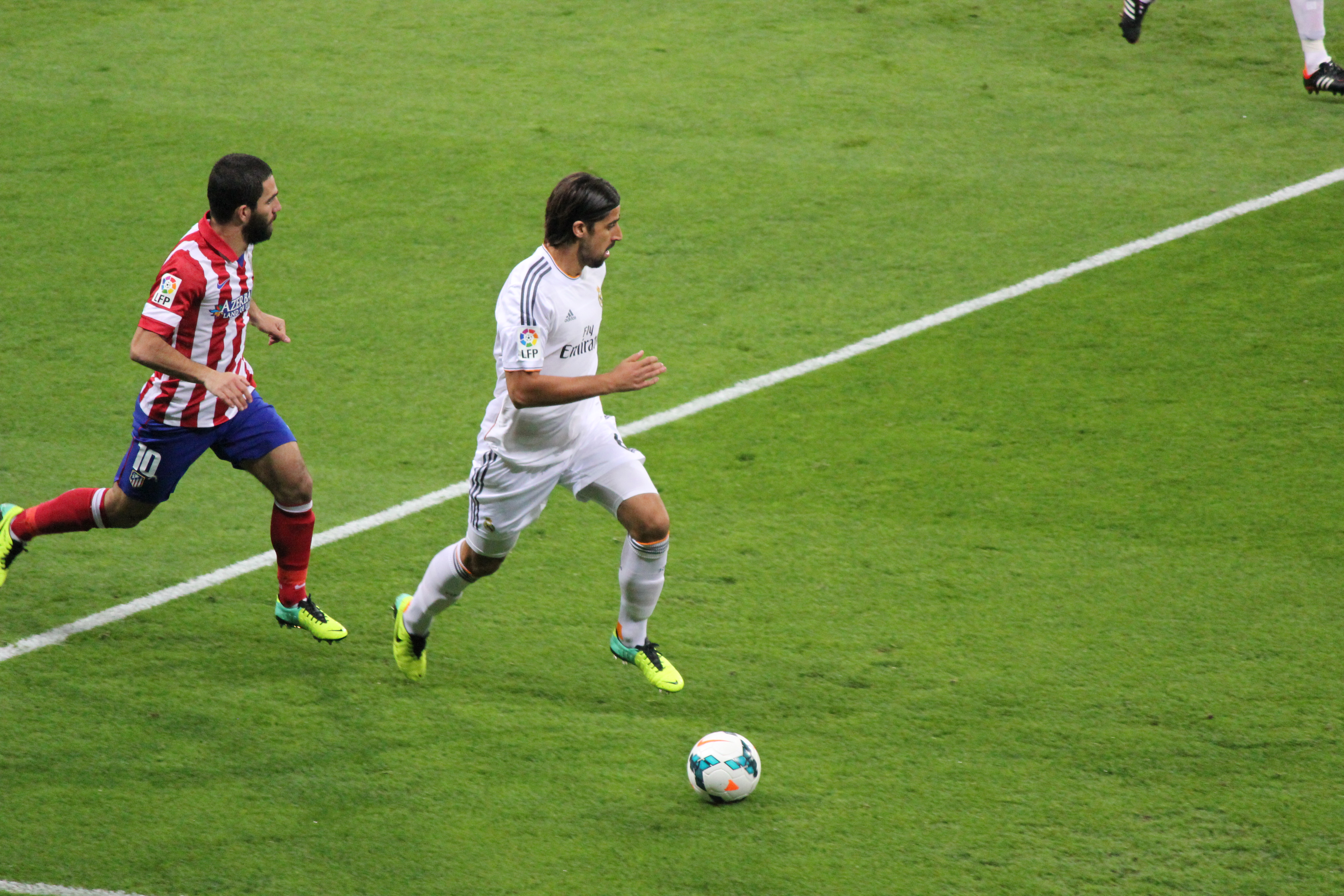 Real Madrid vs. Atlético Madrid 28 September 2013. Arda Turan for Atlético.